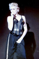 Wembley Stadium Londen Engeland juli '87